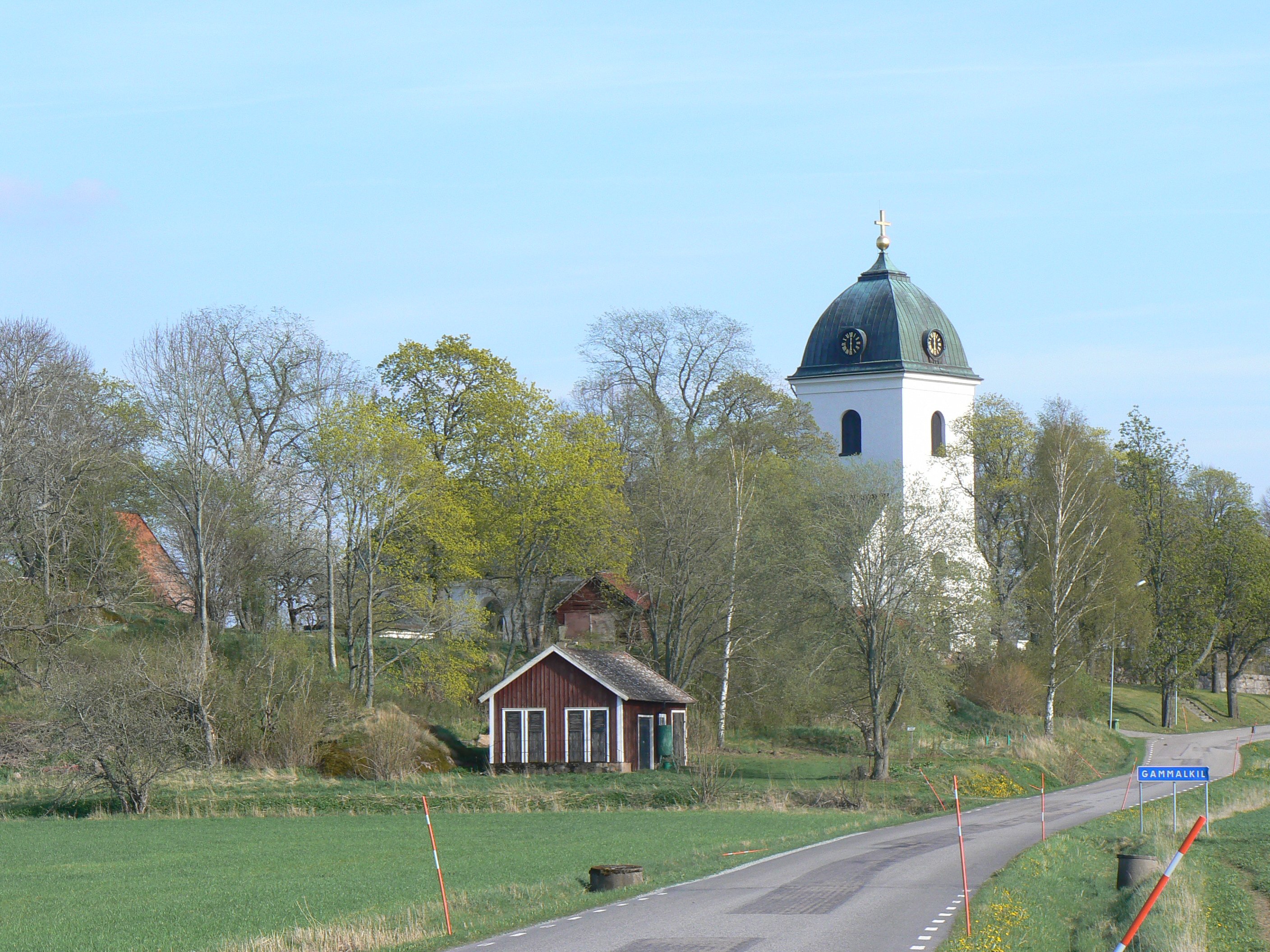 Gammalkil church, Church of Sweden in Diocese of Linköping.